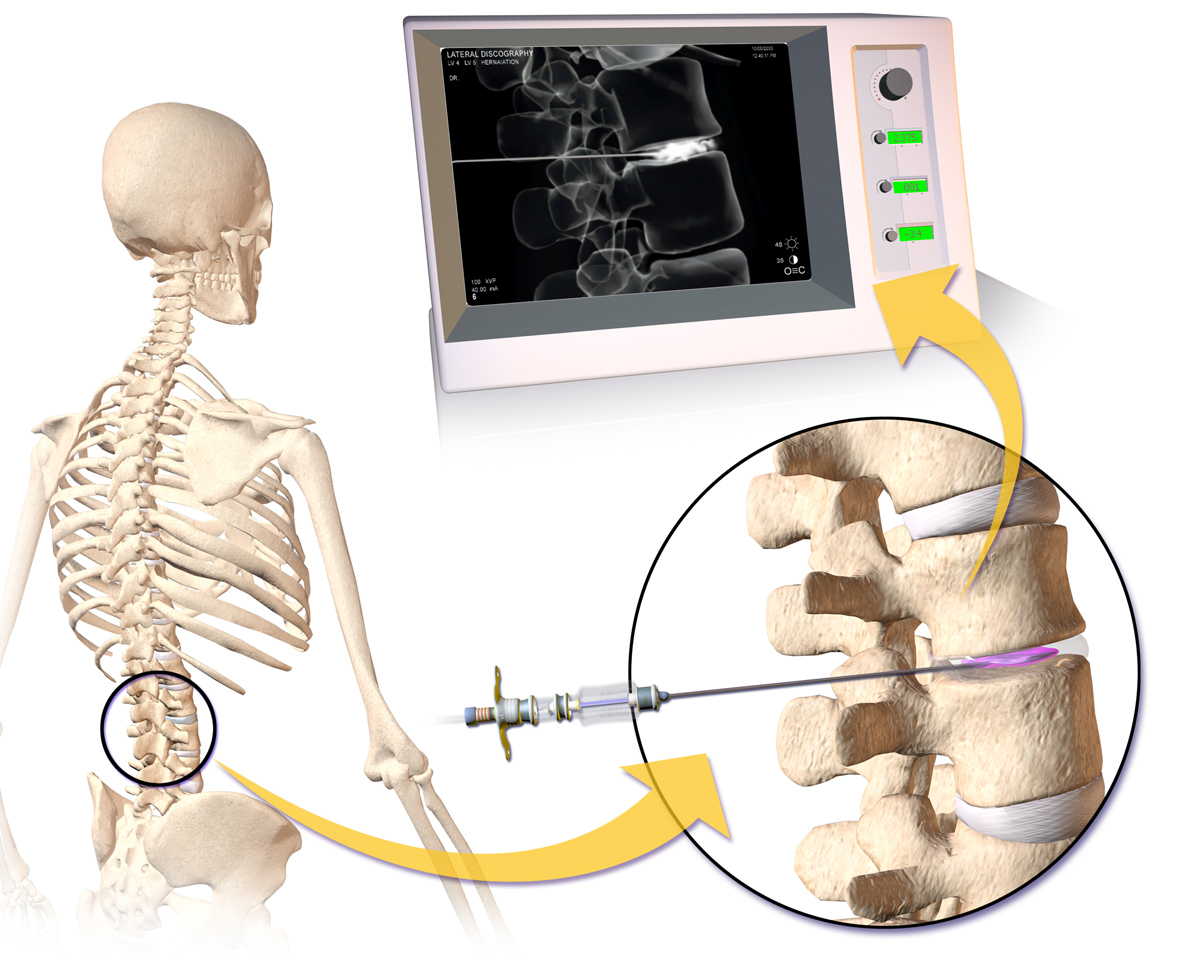 Lumbar Discography. See a full animation of this medical topic.